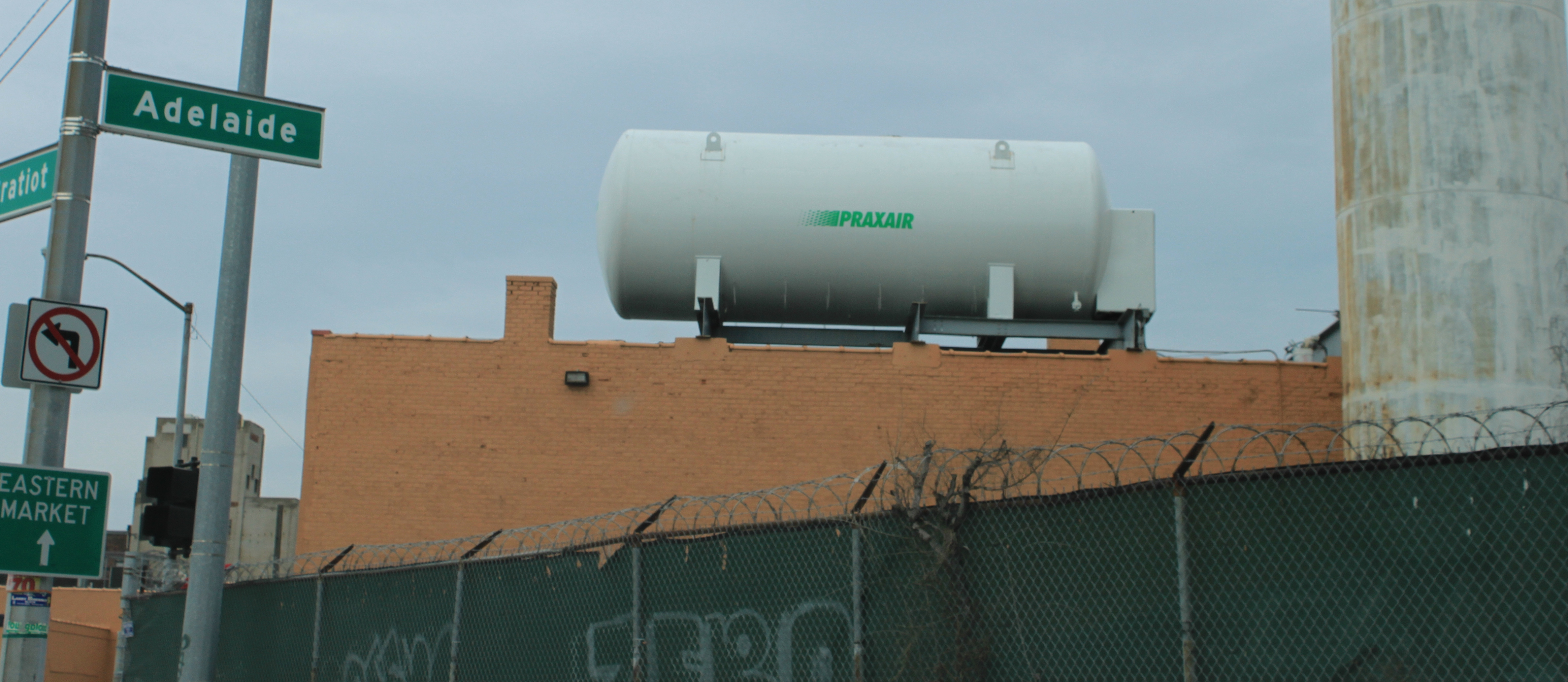 Praxair rooftop nitrogen gas storage tank, KBD Inc., 1939 Adelaide Street, Detroit Michigan. KBD is a meat processing facility